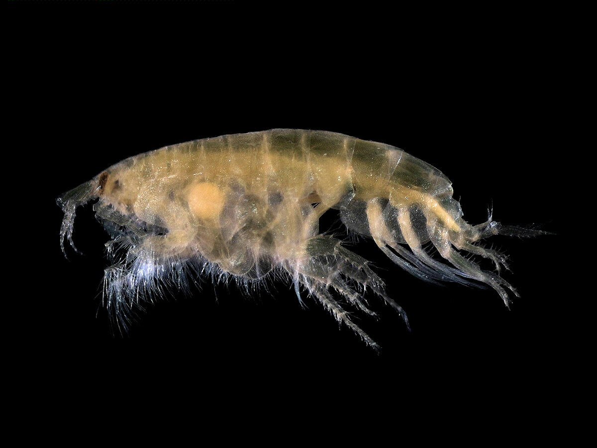 Burying amphipod from subtidal sandy substrates.Camera mounted on a Zeiss Stemi C-2000 binocular microscopeLength: ~5 mm.Belgian Continental Shelf.